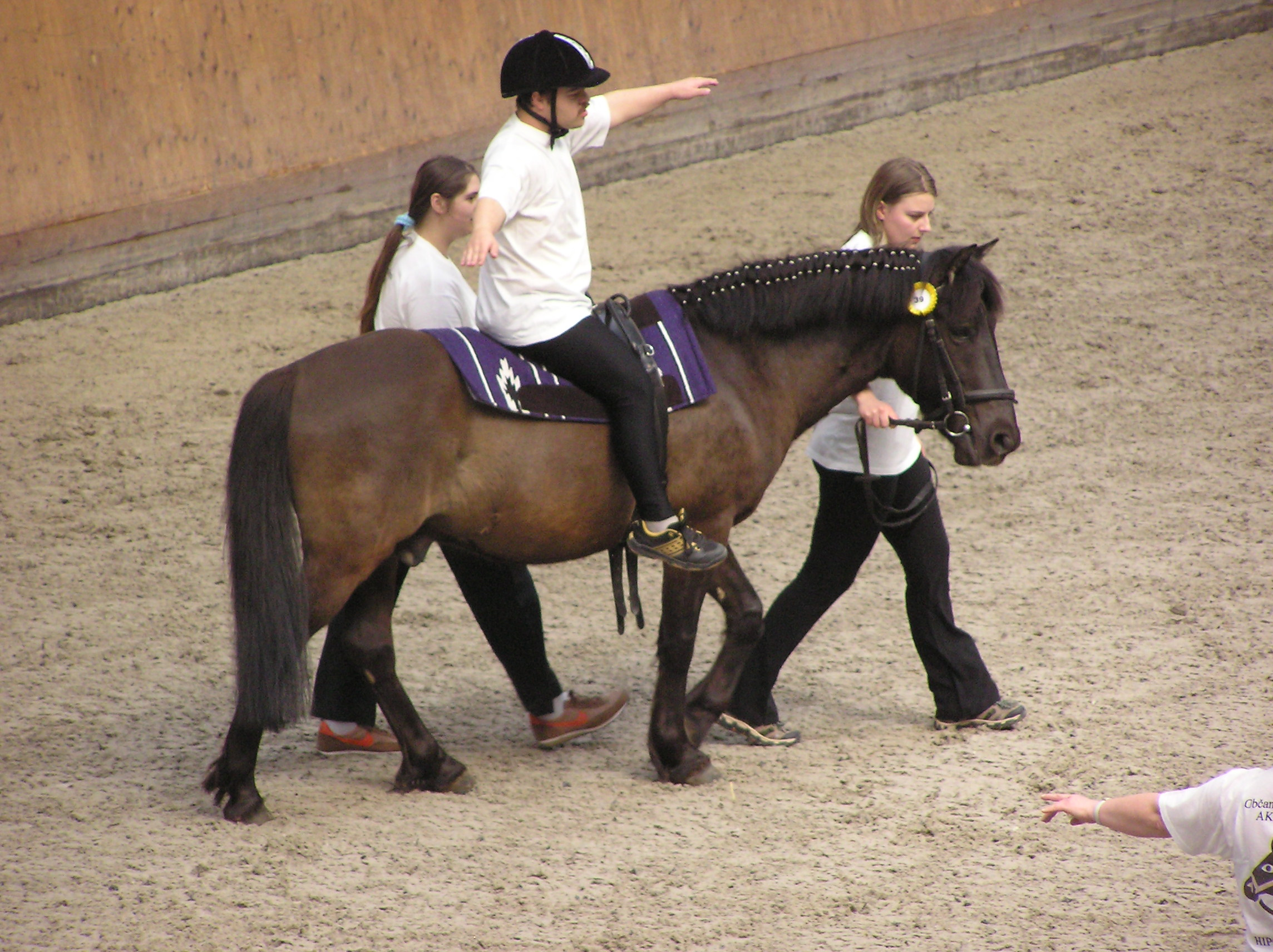 Therapeutic horseback riding horse show, Císařský ostrov, Prague, Czech Republic